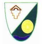 Coat of arms of Fertőendréd, Hungary